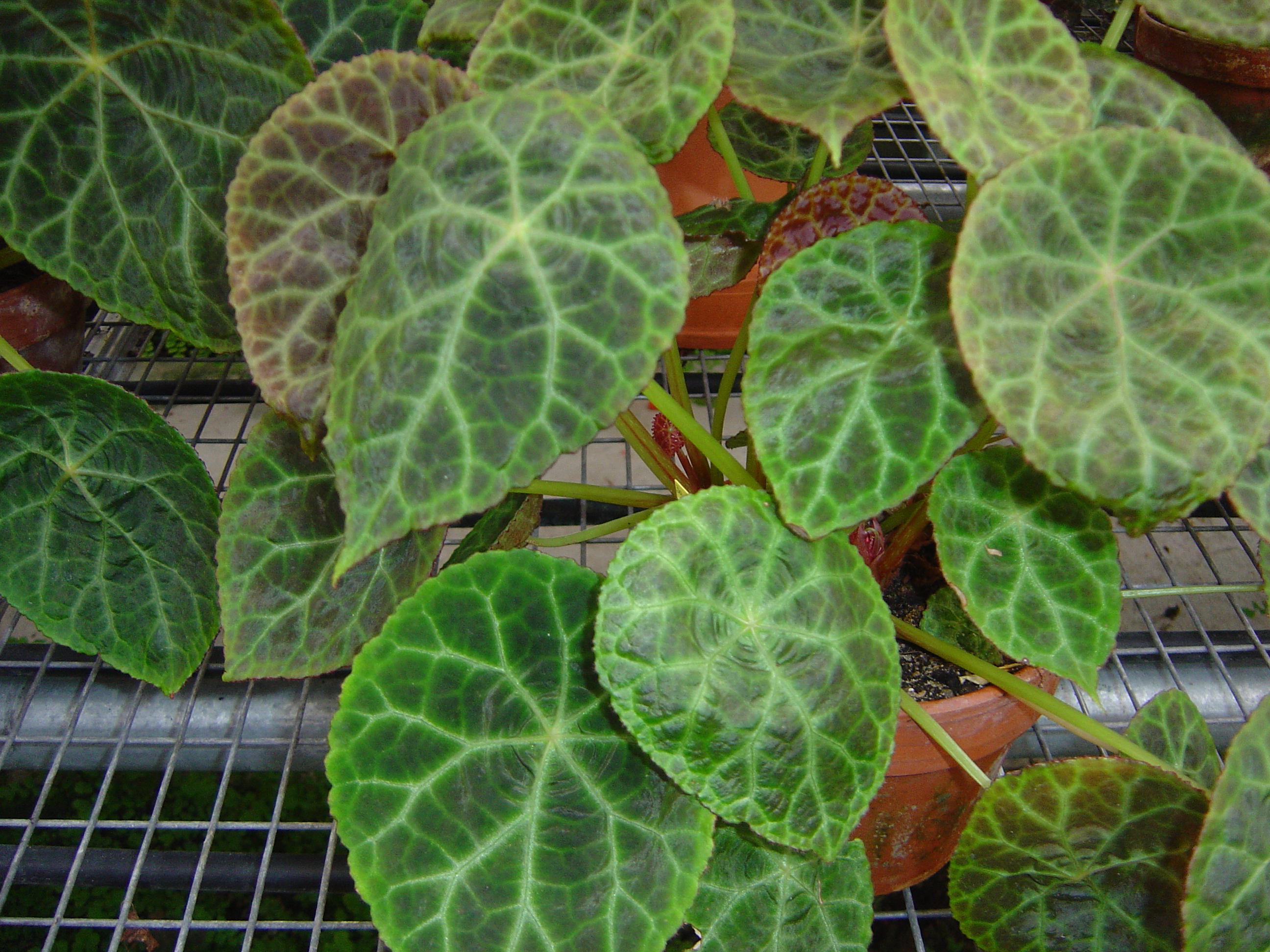 photo catch by myself : Solène Moutardier